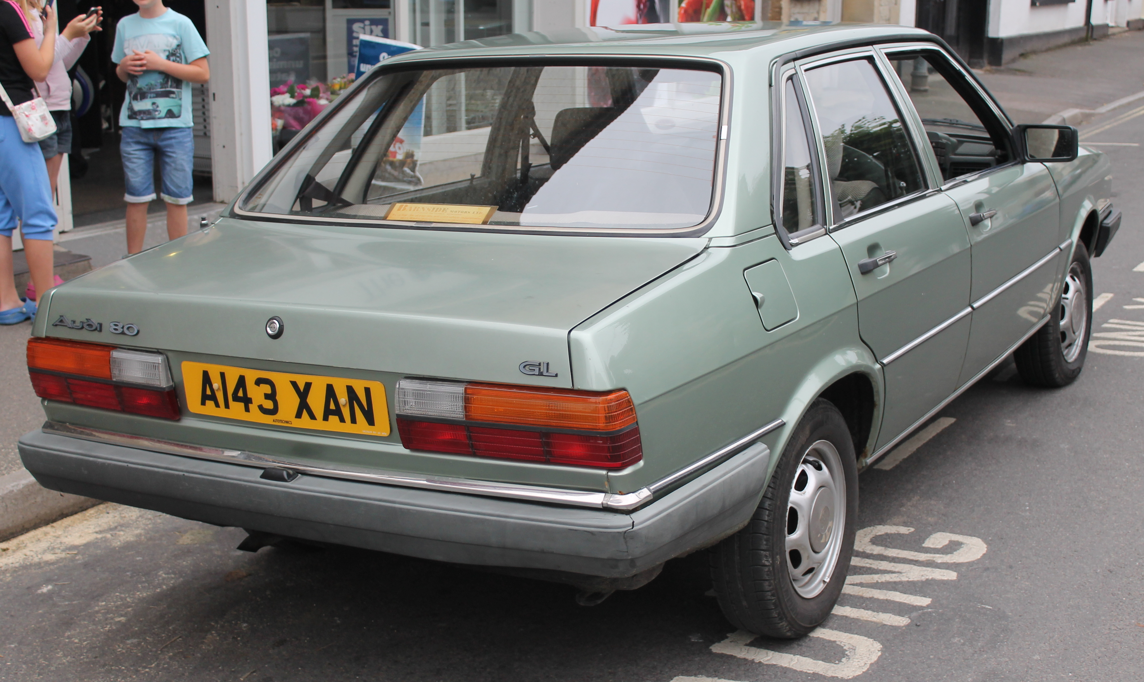 Second time I've spotted this one, but here it's literally a few hundred feet from where I live! Seen outside the local Co-Op is this perfect 1983 Audi 80 in an actually rather nice light green colour. Looking almost perfect, like it would've done when it first rolled out of the showroom 30 years ago! Mileage must be low, or it's just very well looked after! Lovely, and I really like these, but numbers are dwindling. This is one of 58 on the roads. The vehicle details for A143 XAN are: Date of Liability 01 03 2014 Date of First Registration 30 09 1983 Year of Manufacture 1983 Cylinder Capacity (cc) 1780cc CO₂ Emissions Not Available Fuel Type PETROL Export Marker N Vehicle Status Licence Not Due Vehicle Colour GREEN Vehicle Type Approval Not Available